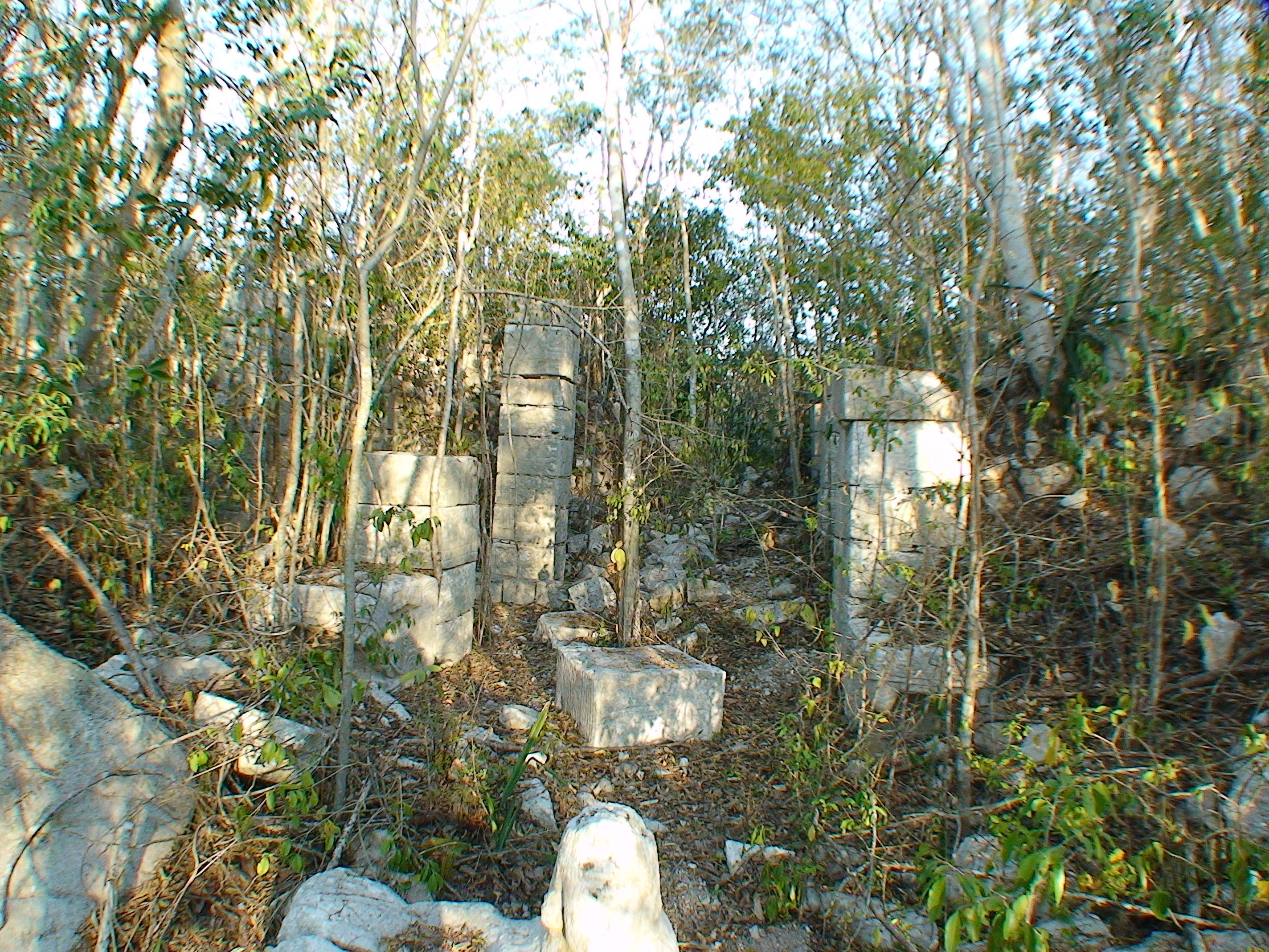 Chichen Itza, Yucatan, Mexico: Templo de las mesitas, entrance